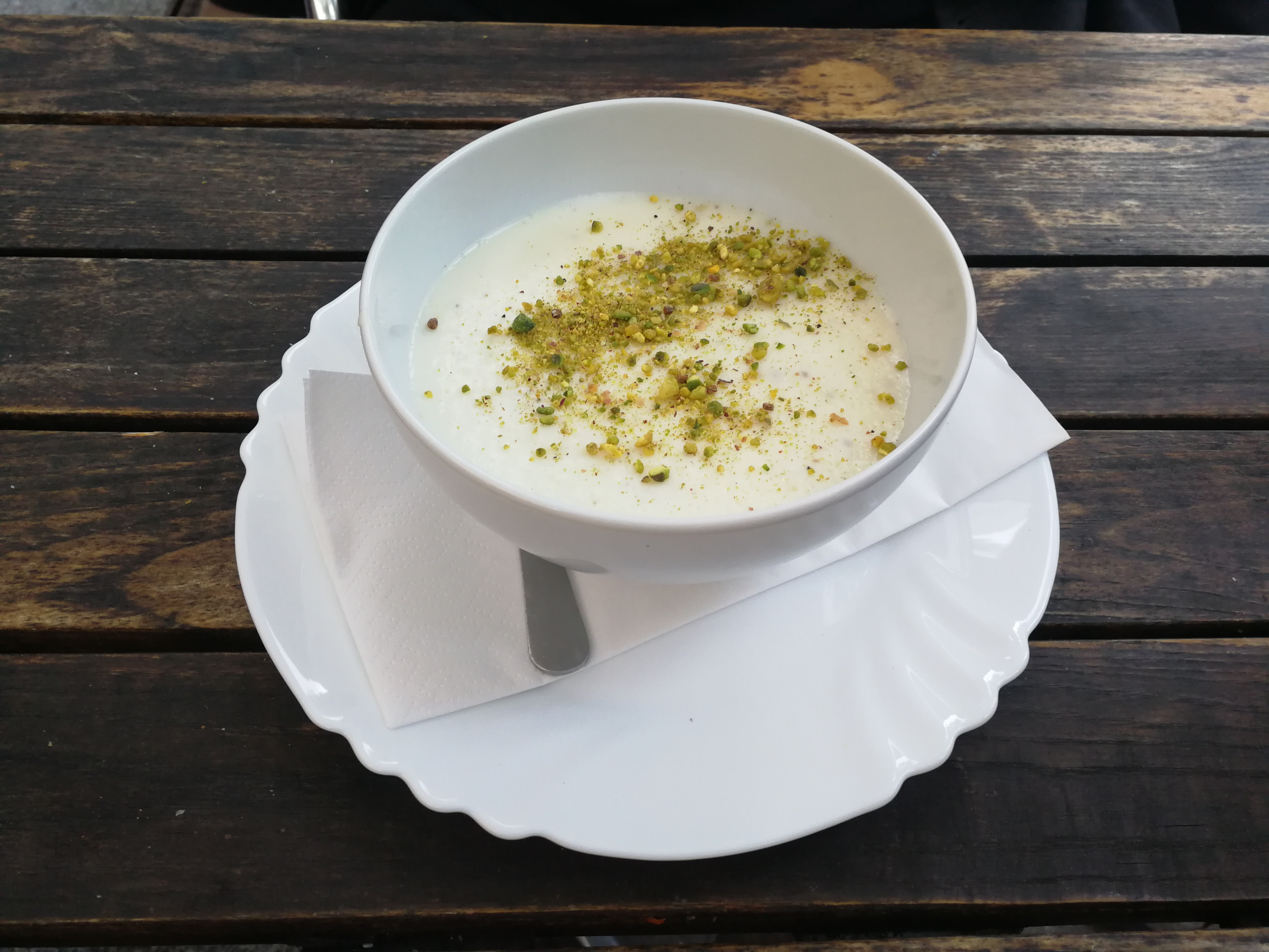 Firni. Afghan rice pudding, known as kheer in other Asian and Middle East countries.